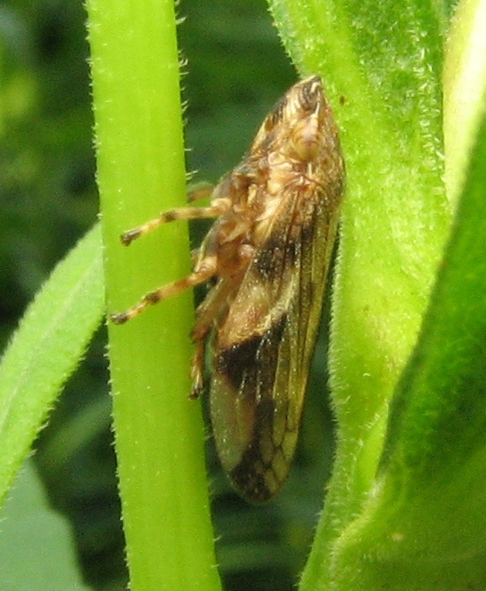 Aphrophora quadrinotata (four-spotted spittlebug). Pennypack Restoration Trust, Montgomery County, Pennsylvania, USA.